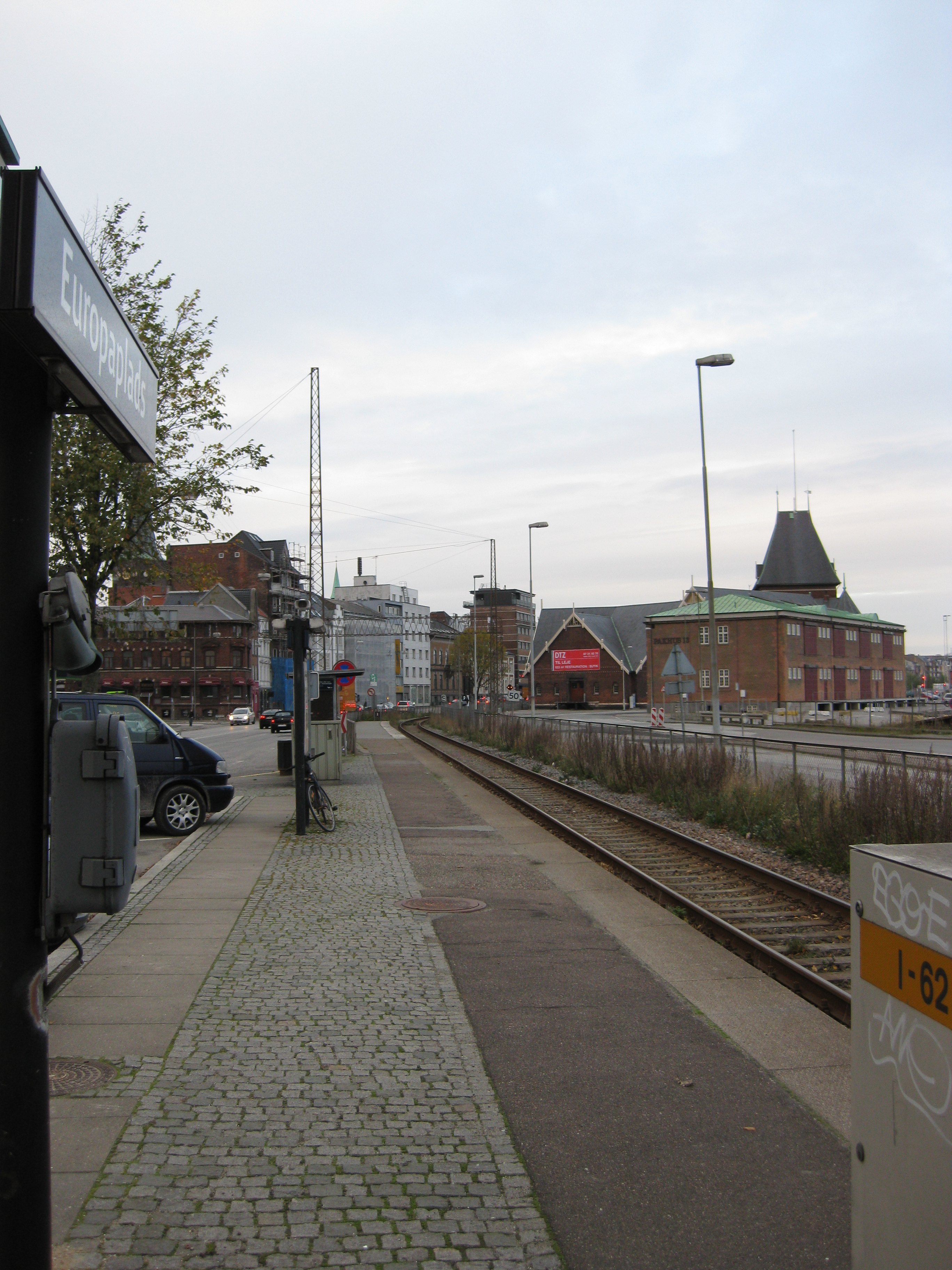 Europaplads Station, Århus, Denmark